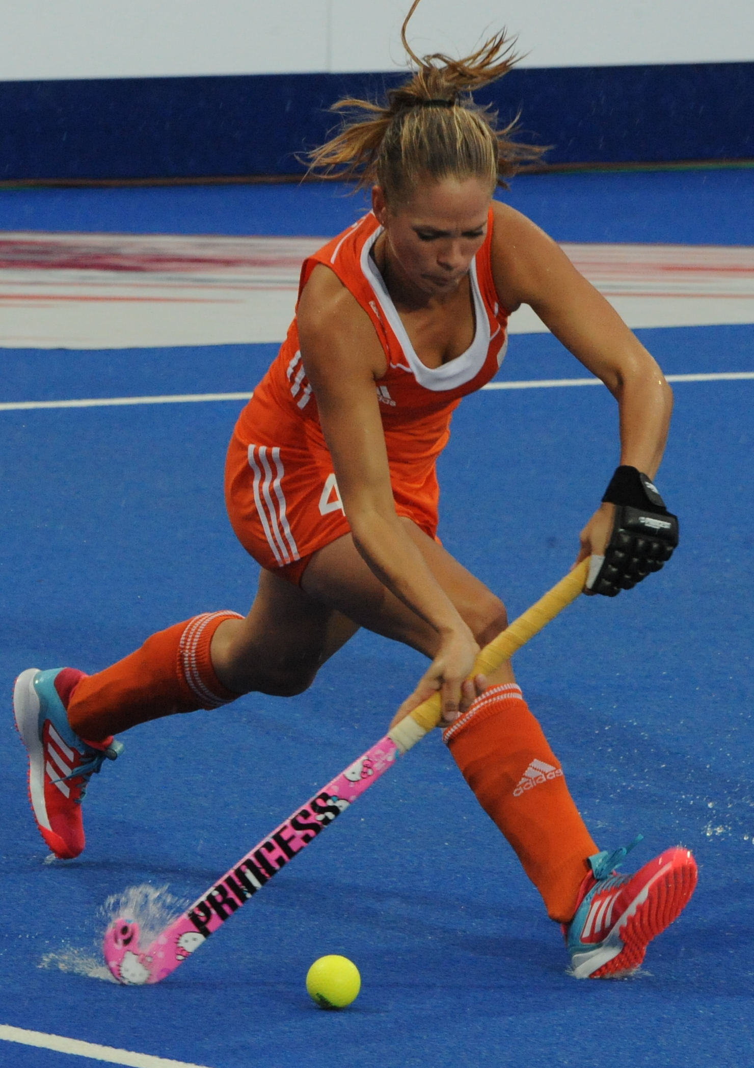 CT 2016: Australia v Netherlands